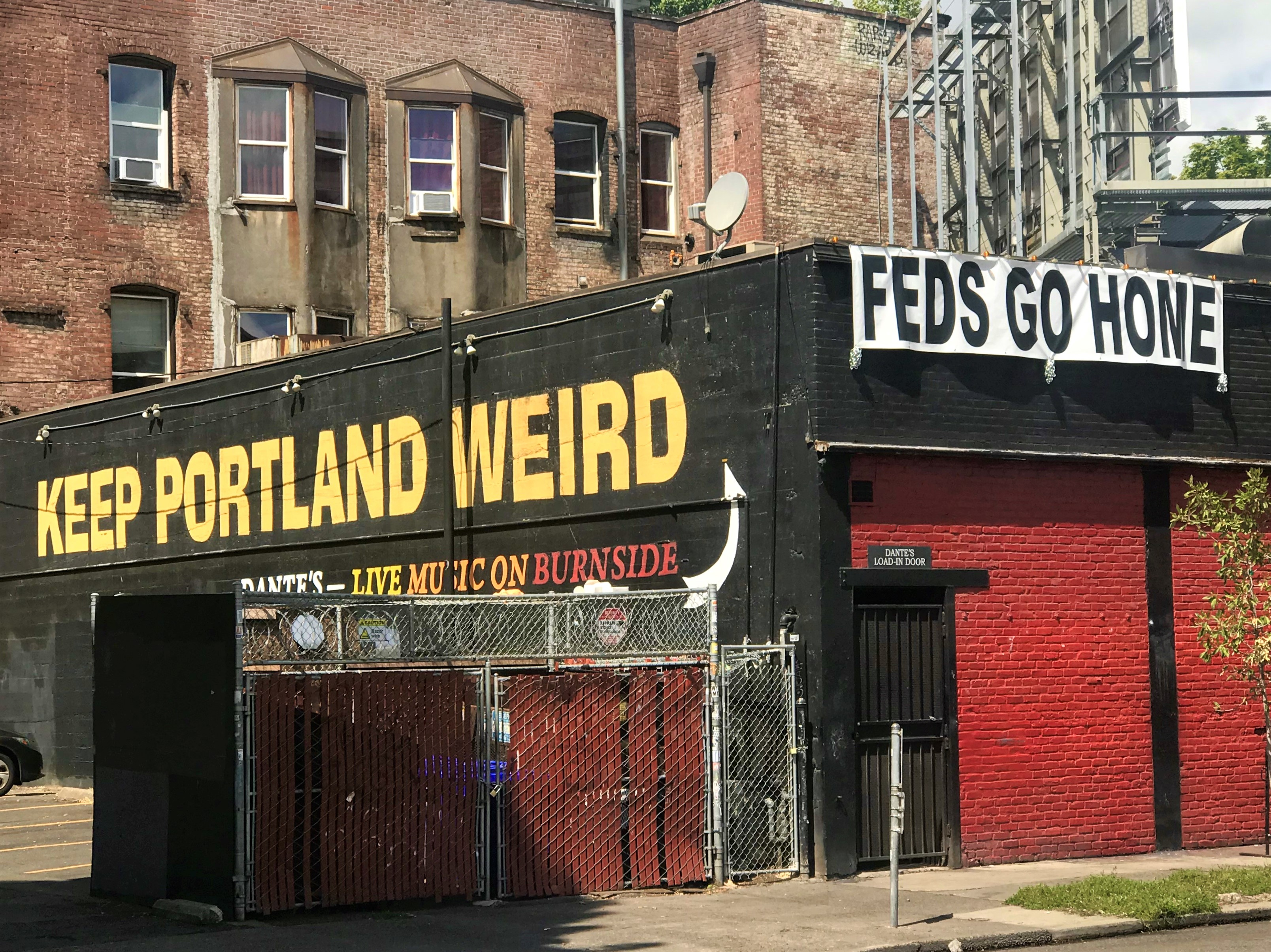 A, "FEDS GO HOME" sign in downtown Portland in August 2020, hung up on the same building as the iconic, "Keep Portland weird" sign.